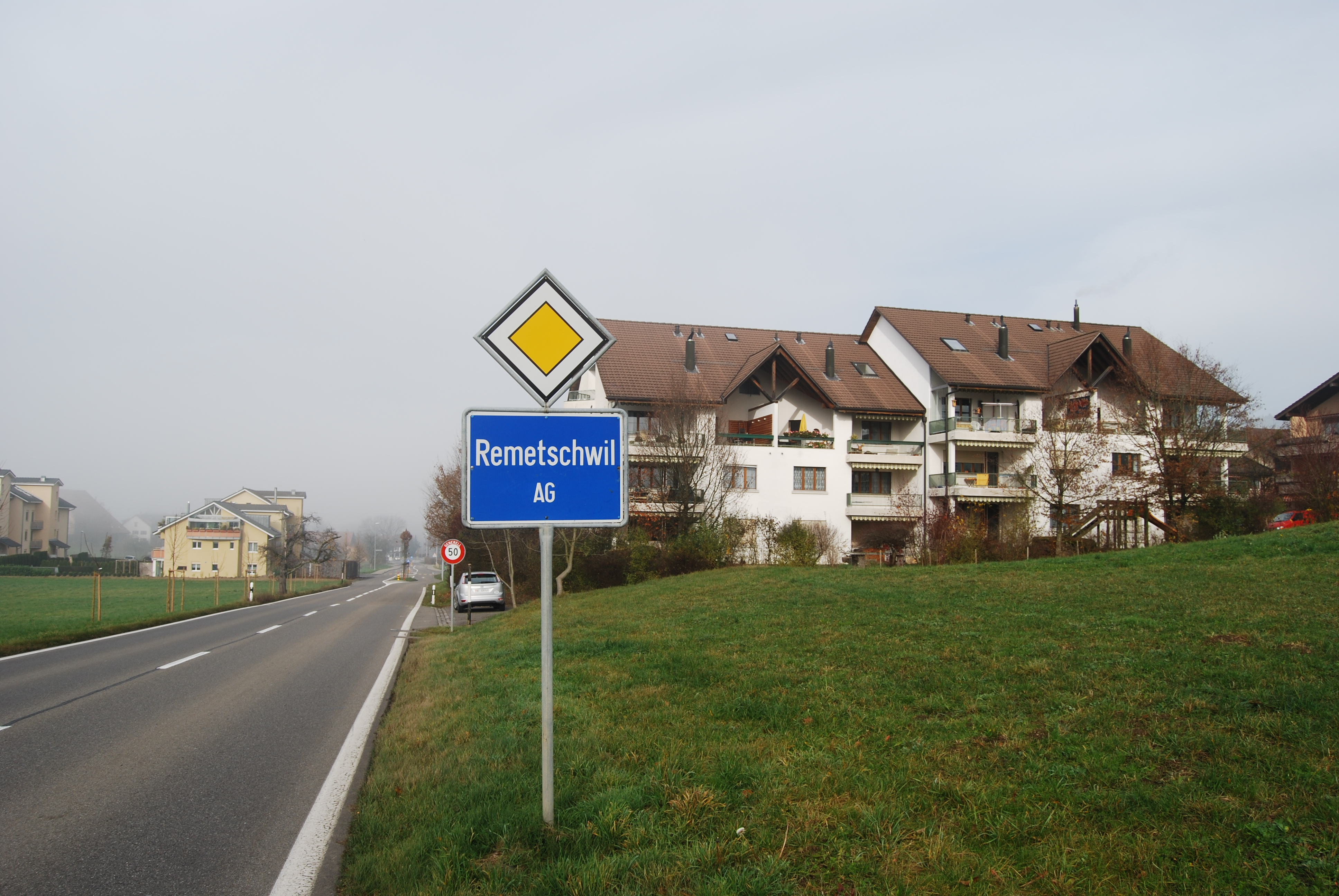 Remetschwil, canton of Aargau, SwitzerlandEsperanto: Remetschwil, Kantono Argovio, Svislando